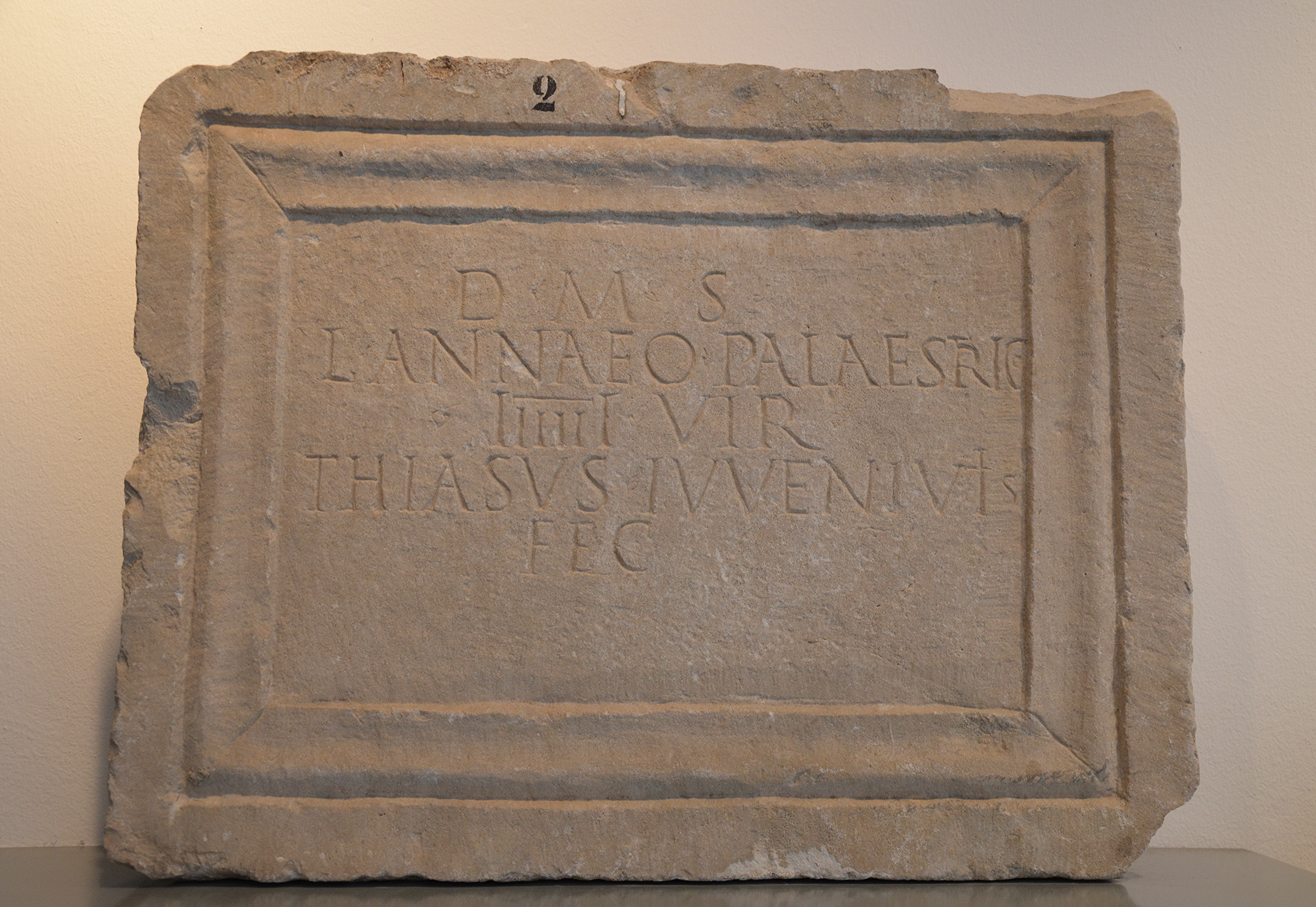 Archaeological museum Narona, Vid, Croatia. CIL III 1828: D(is) M(anibus) s(acrum) / L(ucio) Annaeo Palaestrico / IIIIIIvir(o) / thiasus iuventutis / fec(it)